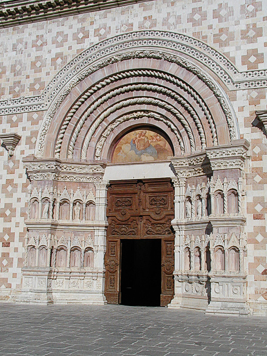 L'Aquila, Basilica di Santa Maria di Collemaggio. Central portal of the west façade.